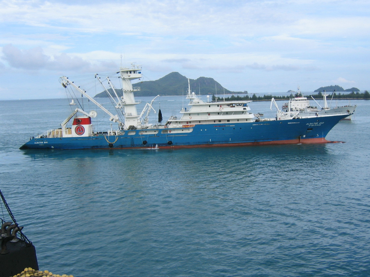 Tuna Purser ALBATUN DOS - Port Victoria harbour - Seychelles Islands IMO number: 9281308 Callsign: ECEM